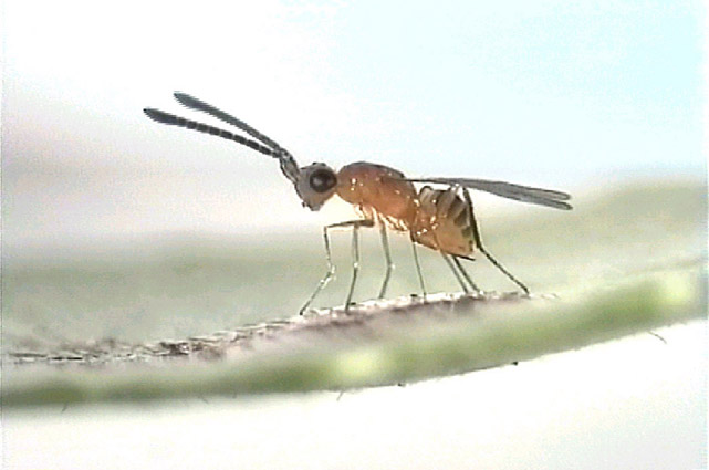 This parasitic wasp, Gonatocerus triguttatus, lays its eggs in glassy-winged sharpshooter eggs embedded in a leaf.